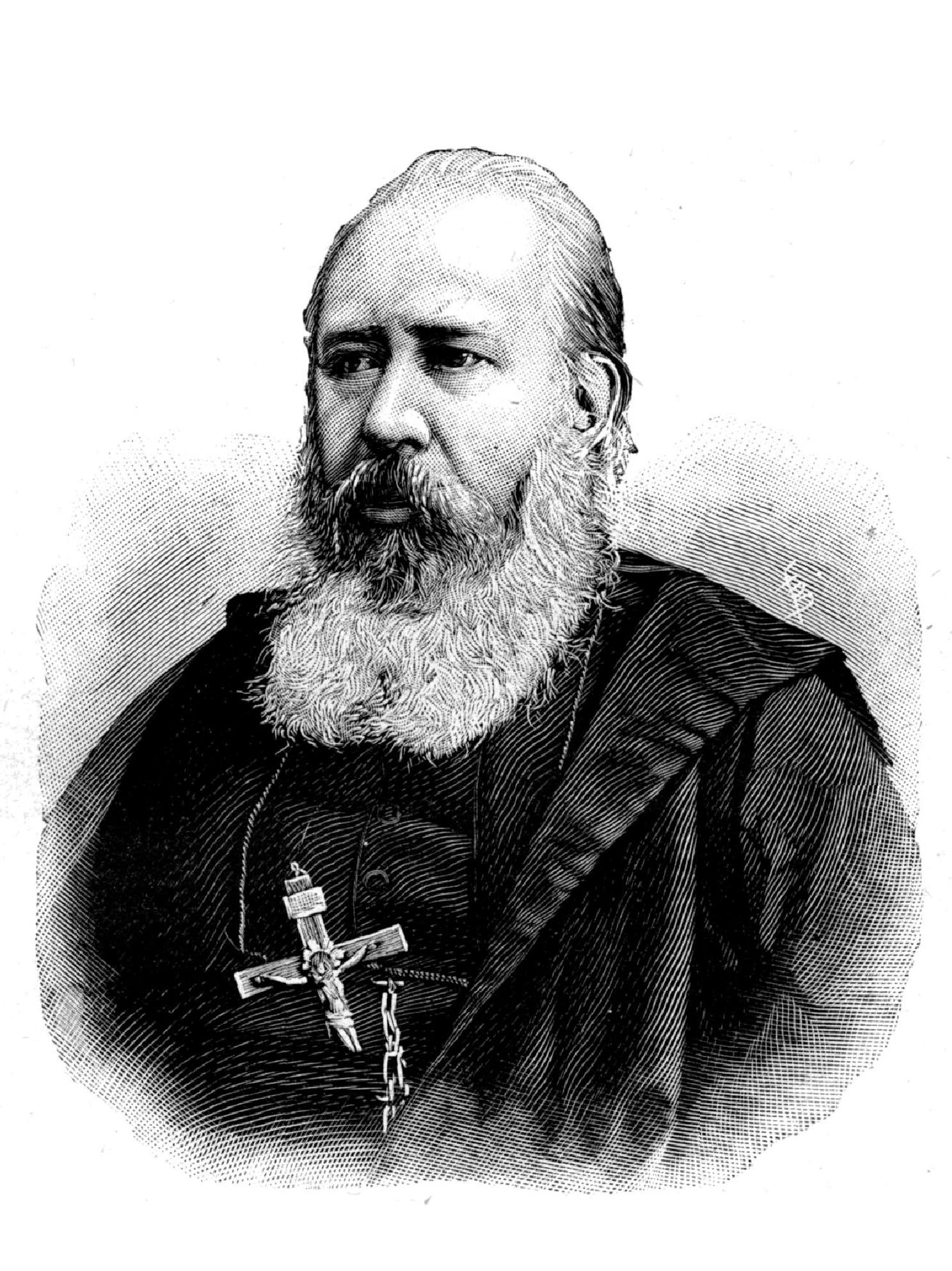 Paul de Geslin.